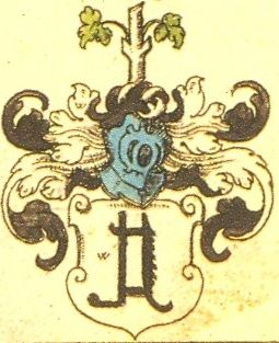 Code of Arms of the von der Decken family